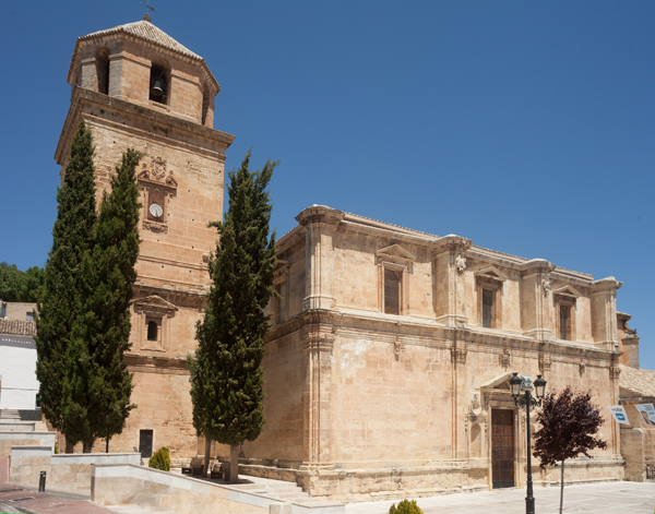 Iglesia parroquial (Iglesia de la Inmaculada Concepción); Huelma, Andalucía, Jaén, Spain; ; ref: PM_091230_E_Huelma; ; Photographer: Paul M.R. Maeyaert; © Paul M.R. Maeyaert; ; Cultural heritage; Europeana; Europe/Spain/Huelma